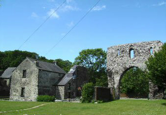 Pill Priory present